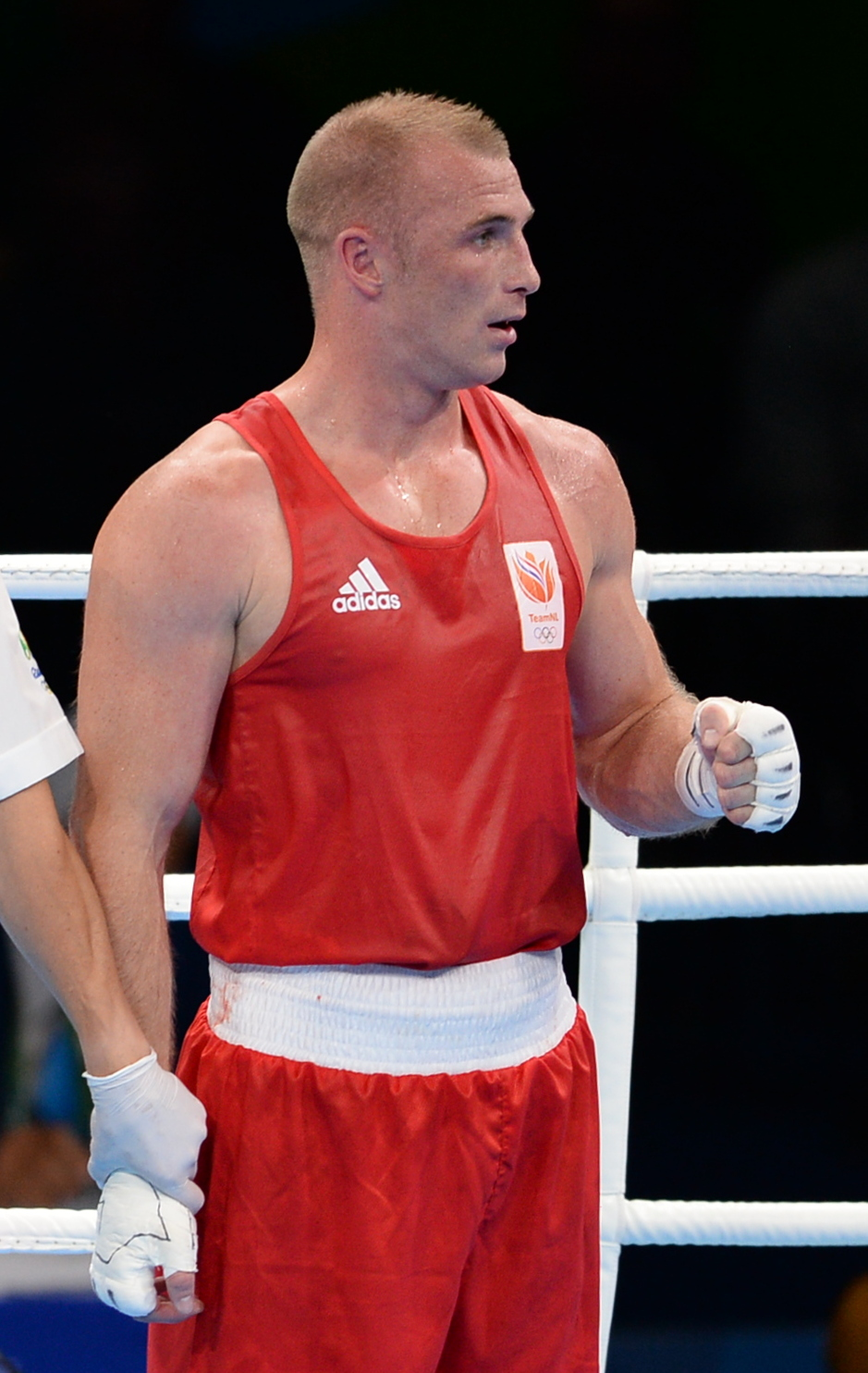 Boxing at the 2016 Summer Olympics, Mammadov vs Müllenberg